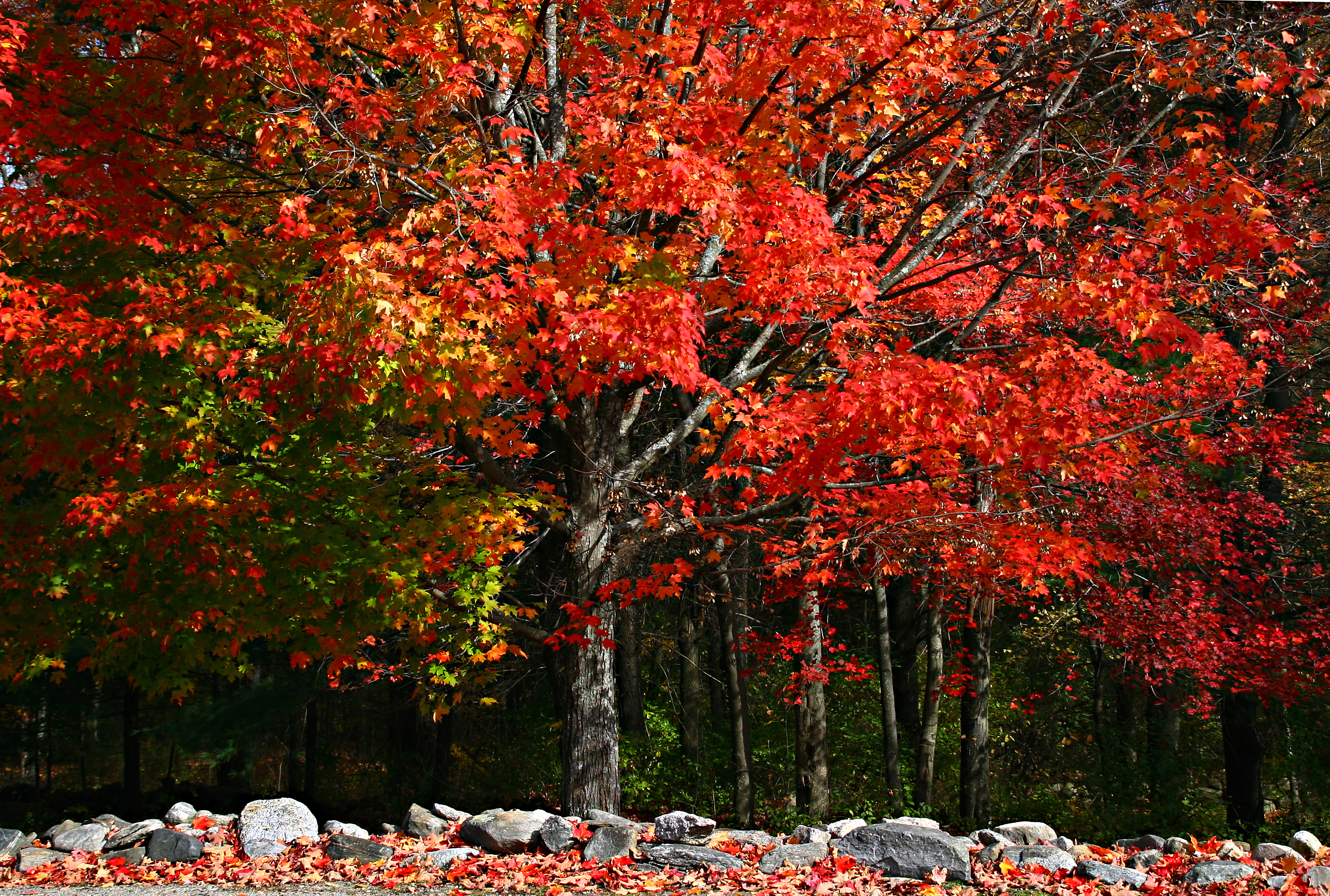 Lone multicolored Sugar Maple Acer saccharum, Boxborough, Massachusetts, USA